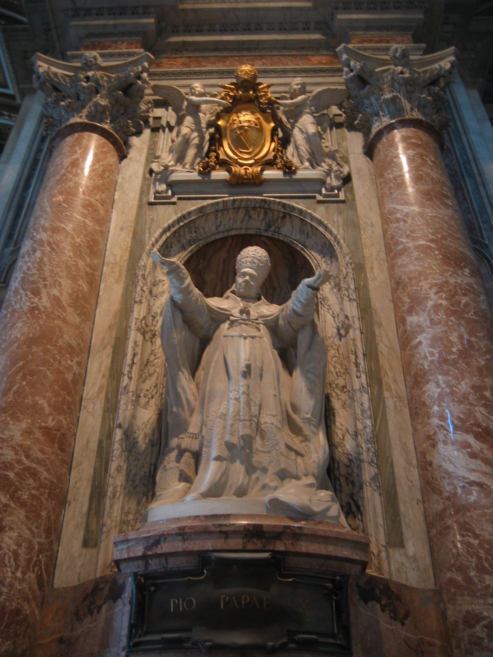 A statue of Pope Pius X at St. Peter's Basilica in the Vatican City